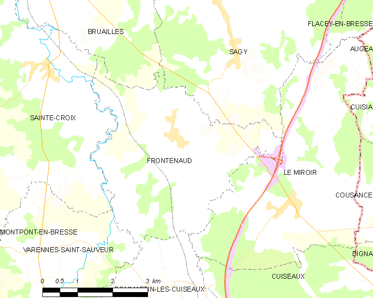 Map of French municipality